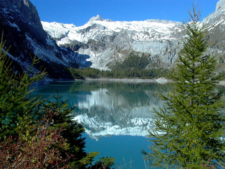 Lac de Tseuzier with Schnidehorn